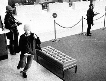 S.L.A. members(left to right): Donald DeFreeze, Patricia Soltysik (first row), Patricia Hearst at the moment of the robbery of Hibernia Bank (California, USA) on April 15, 1974.